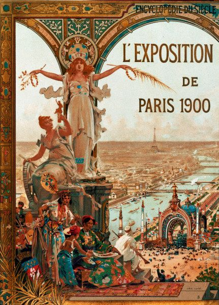 Poster of the Exposition Universelle (1900)